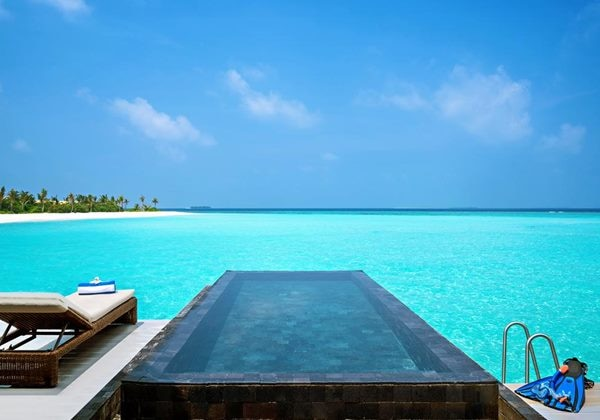 View from Movenpick Maldives